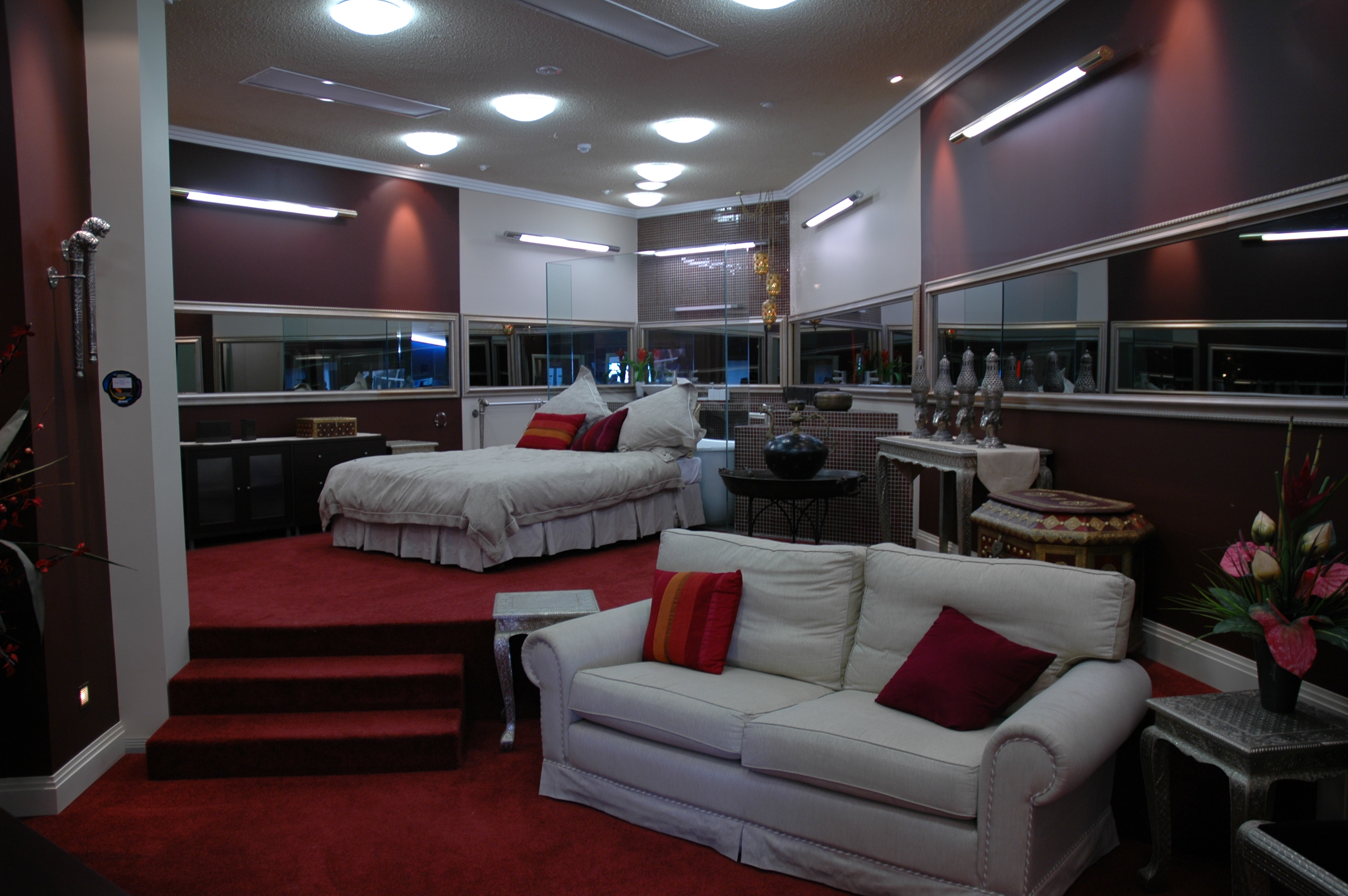 The "Rewards Room" - taken at the house in Dreamworld 27 November 2005